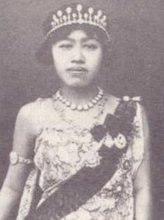 Princess Indrasakdi Sachi